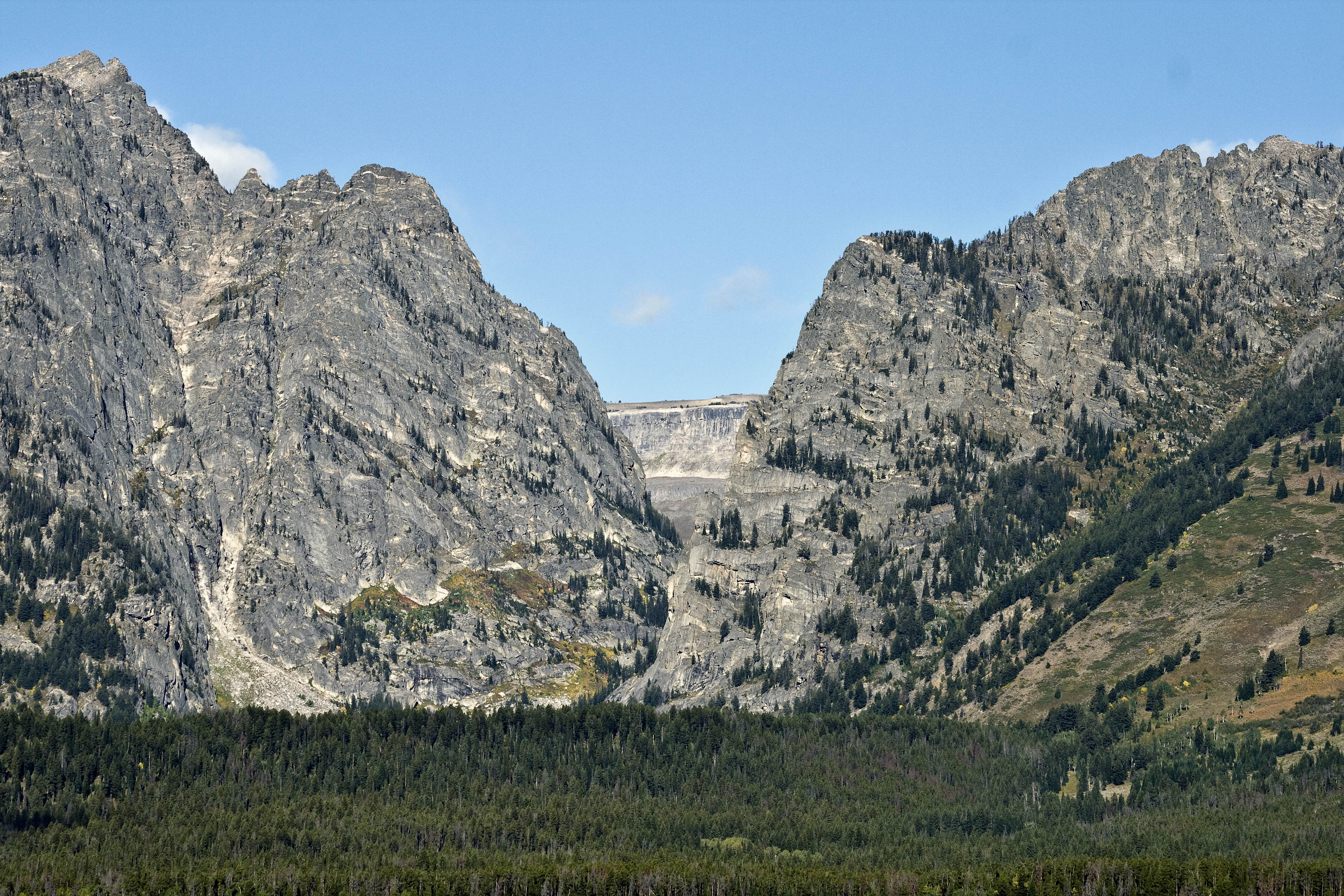 Death Canyon in Grand Teton National Park, Wyoming, USA, as seen from the Albright View turnout